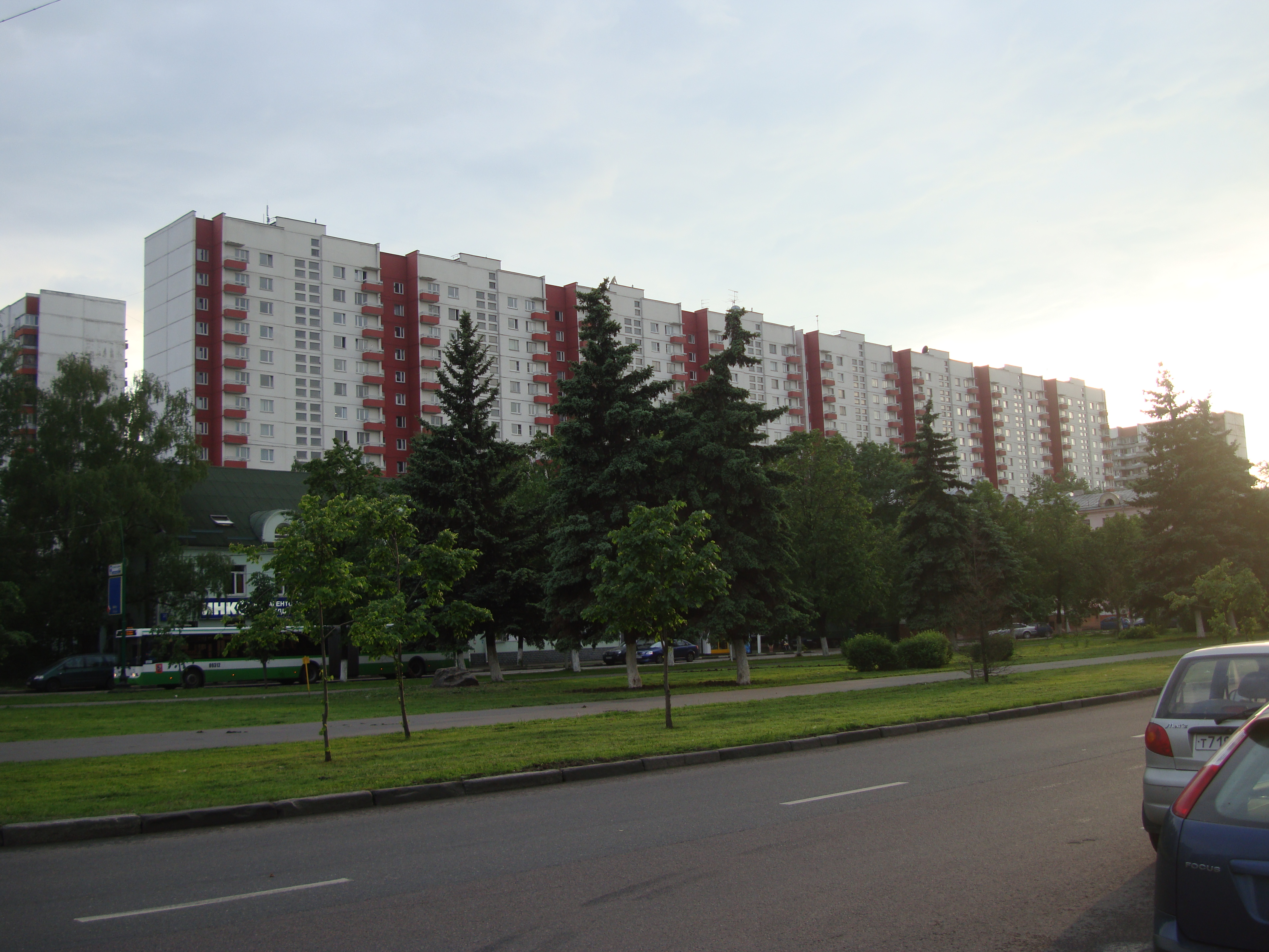 16/2 Dmitri Ulianov Street, Moscow, Russia. Embassy of Macedonia.